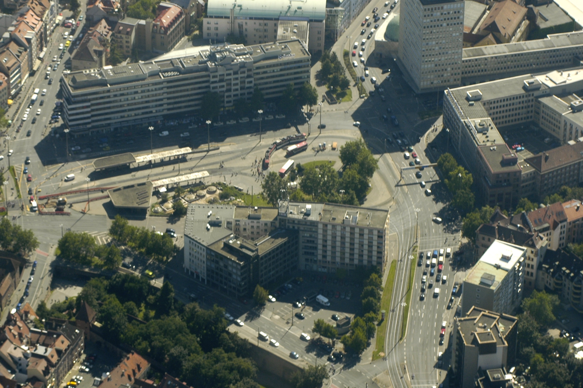 Aerial photography of Plärrer in Nuremberg, Germany